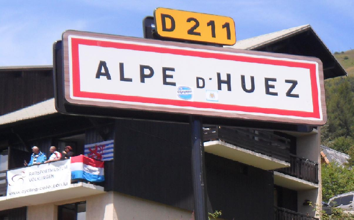 Signal Alpe d'Huez